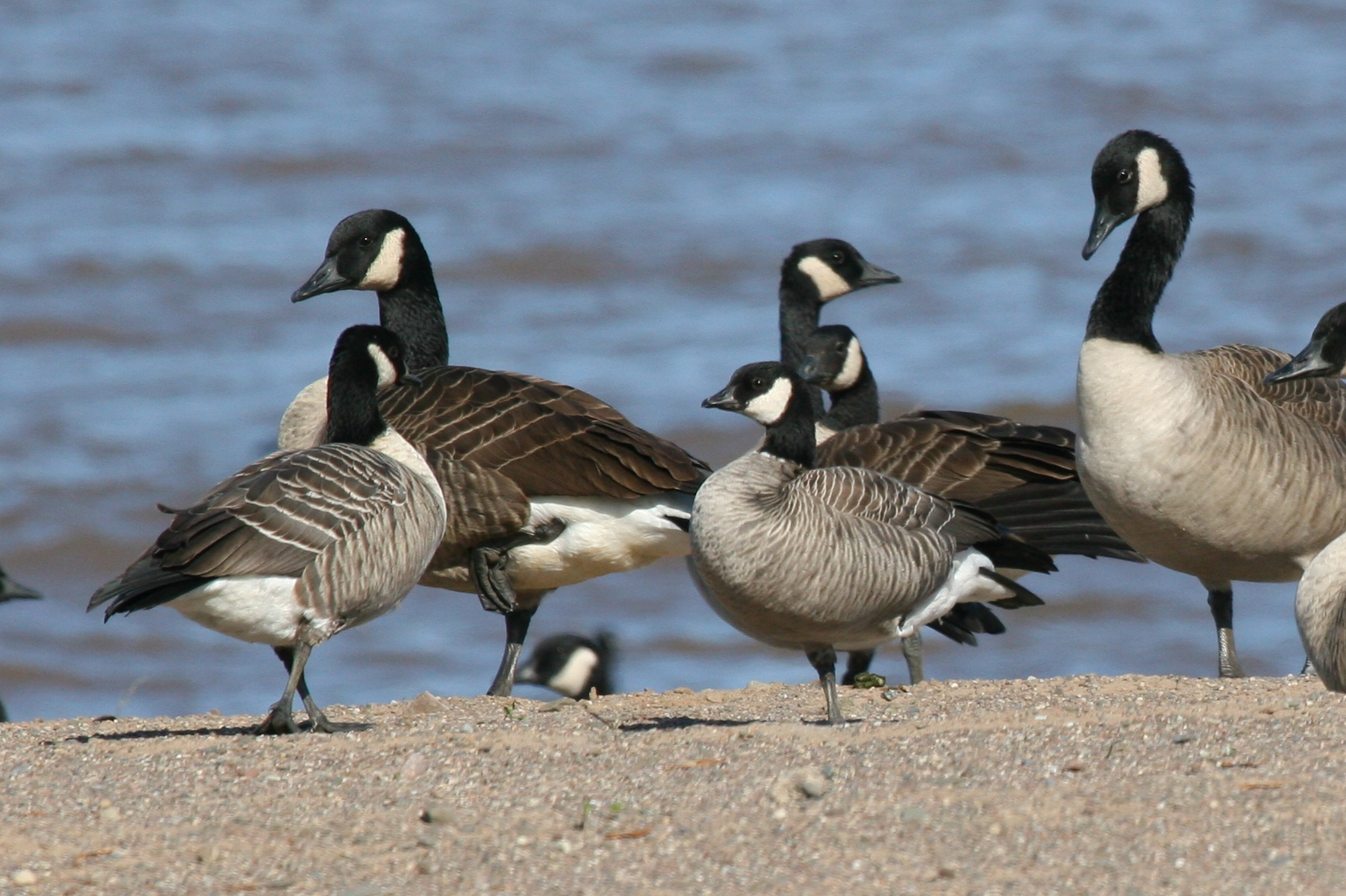 Cackling Goose Branta hutchinsii hutchinsii, near Rochester, New York